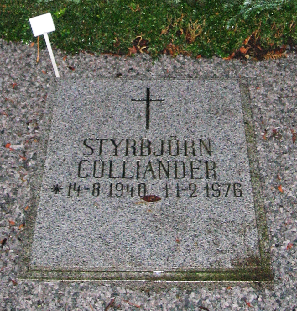 Grave of swedish club owner Styrbjörn Colliander (1940-1976). Photo taken at Klosterkyrkogården in Lund, Sweden 090110 by the uploader.